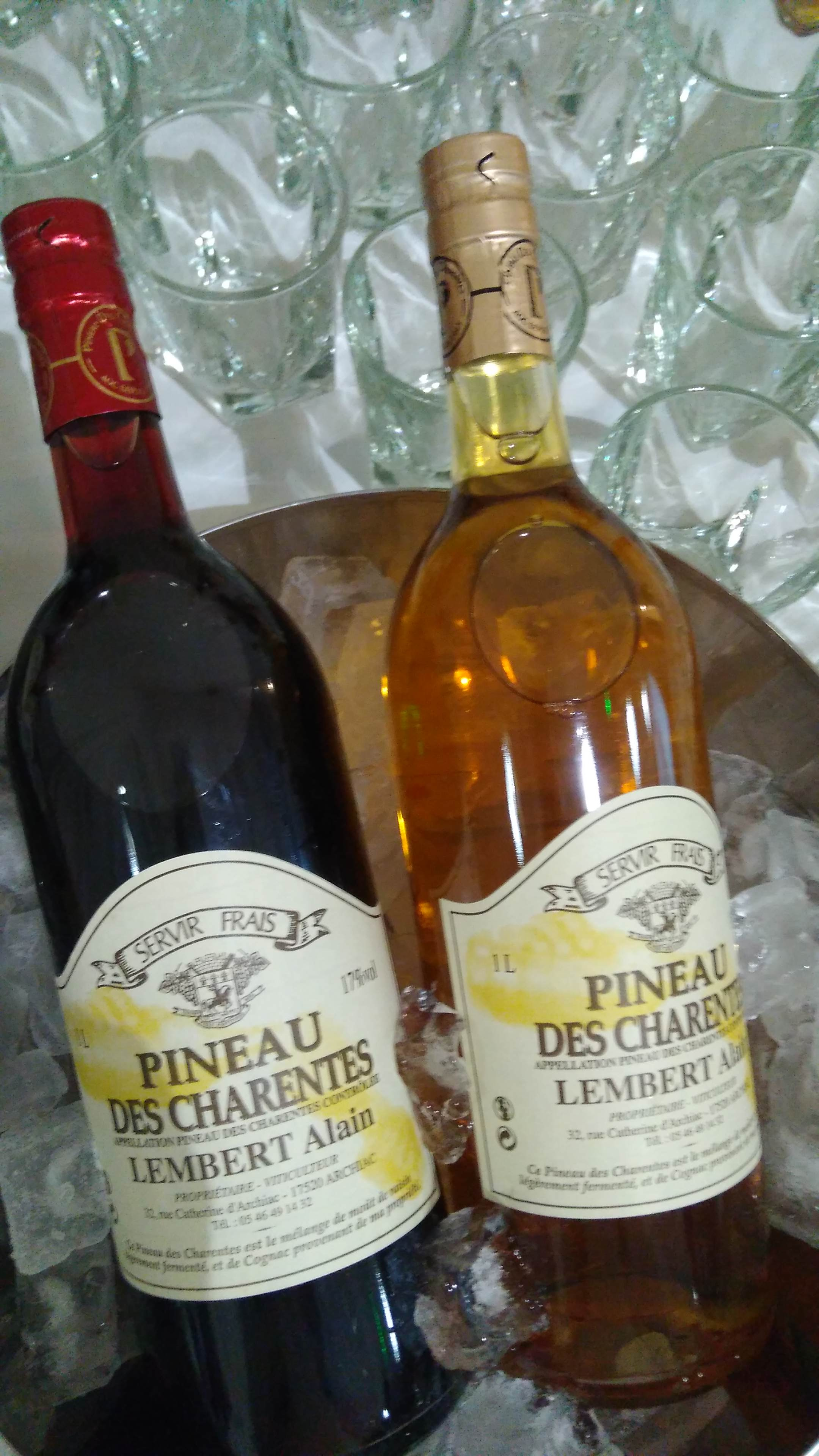 P&C : Pineau rouge et blanc